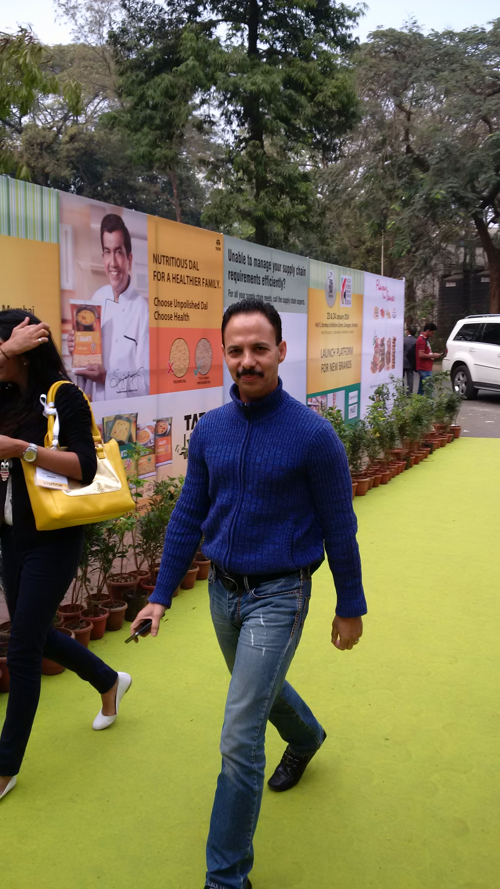 Mickey Mehta at the The Food & Grocery Forum 2014, at Goregaon, Mumbai